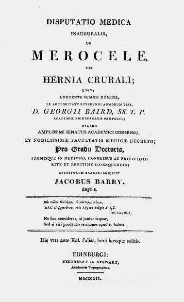 Title page of Barry’s thesis.